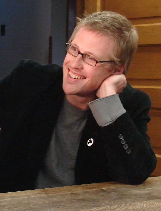 This is a cropped version of a 2007 photo of the late Joshua Casteel, conscientious objector to war and former US Army soldier. The photo was taken by Jim Forest at the Catholic Worker house in South Bend, IN. The photo was cropped by Mox La Push.